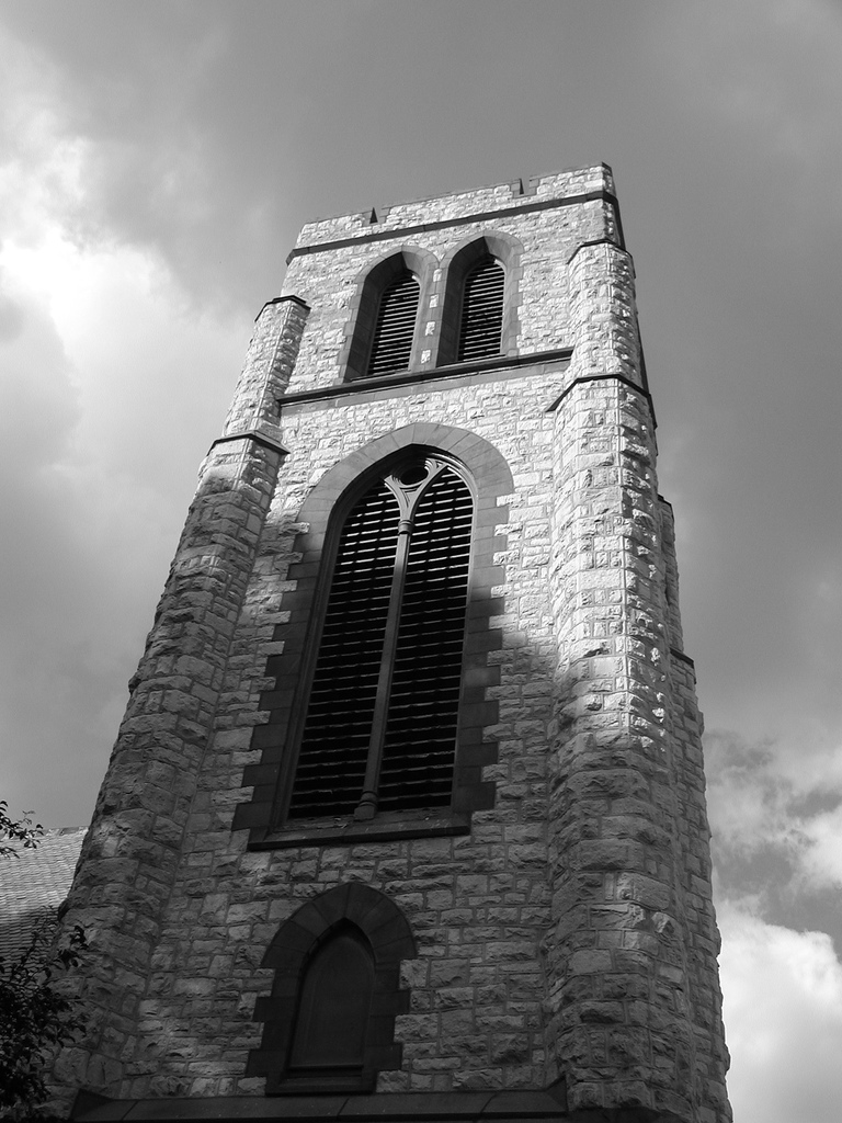 A. Velik. Trinity Lutheran Church, West Main Street. August 2005. Please for comments.